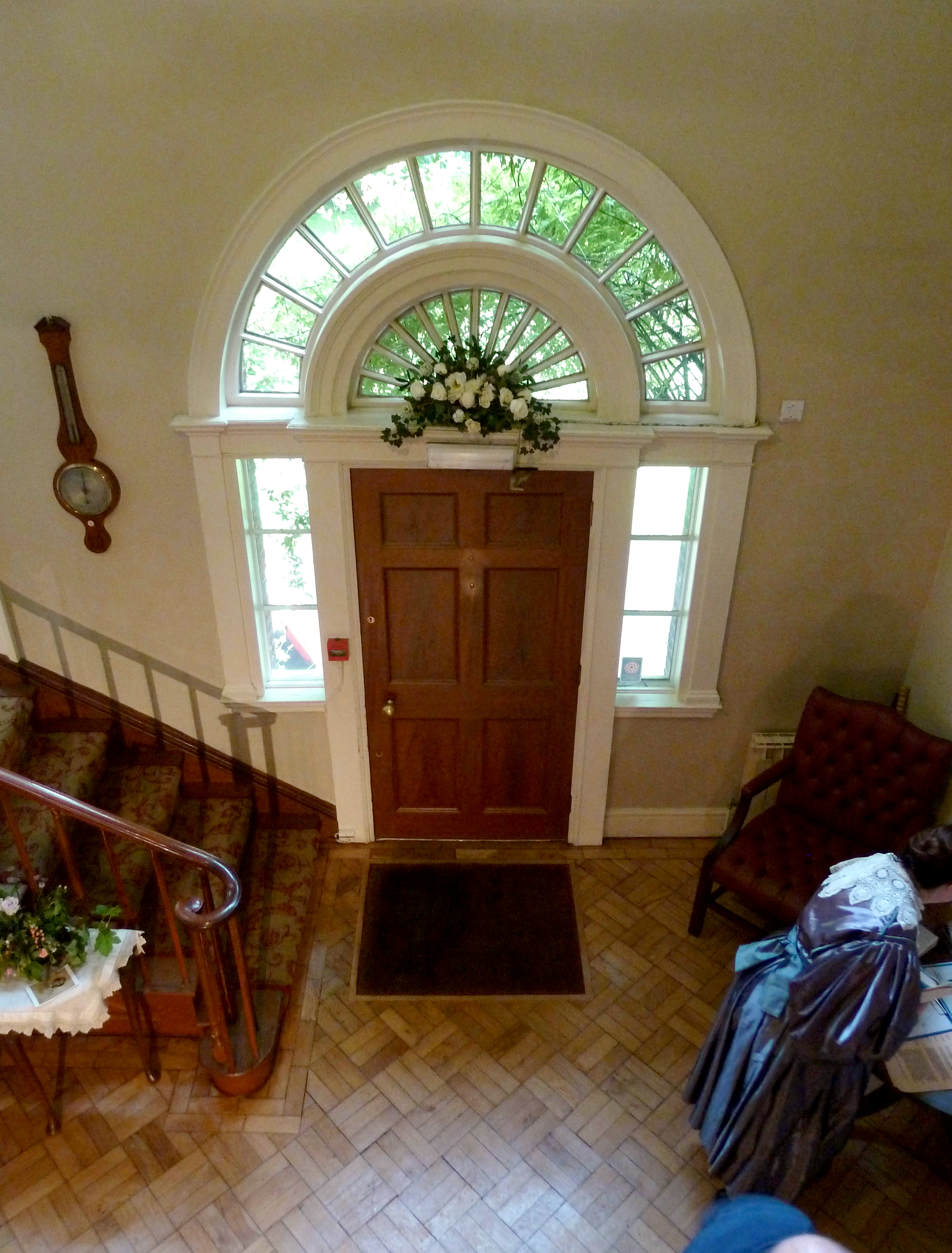 Red House Museum in Gomersal, West Yorkshire, England. Showing interior view of 18th century door frame.